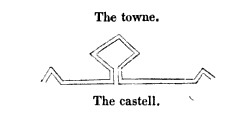 Thomas Fisher's Diagram of the Spur fortification printed in Henry Ellis (1846) series 3, vol 3, p. 300